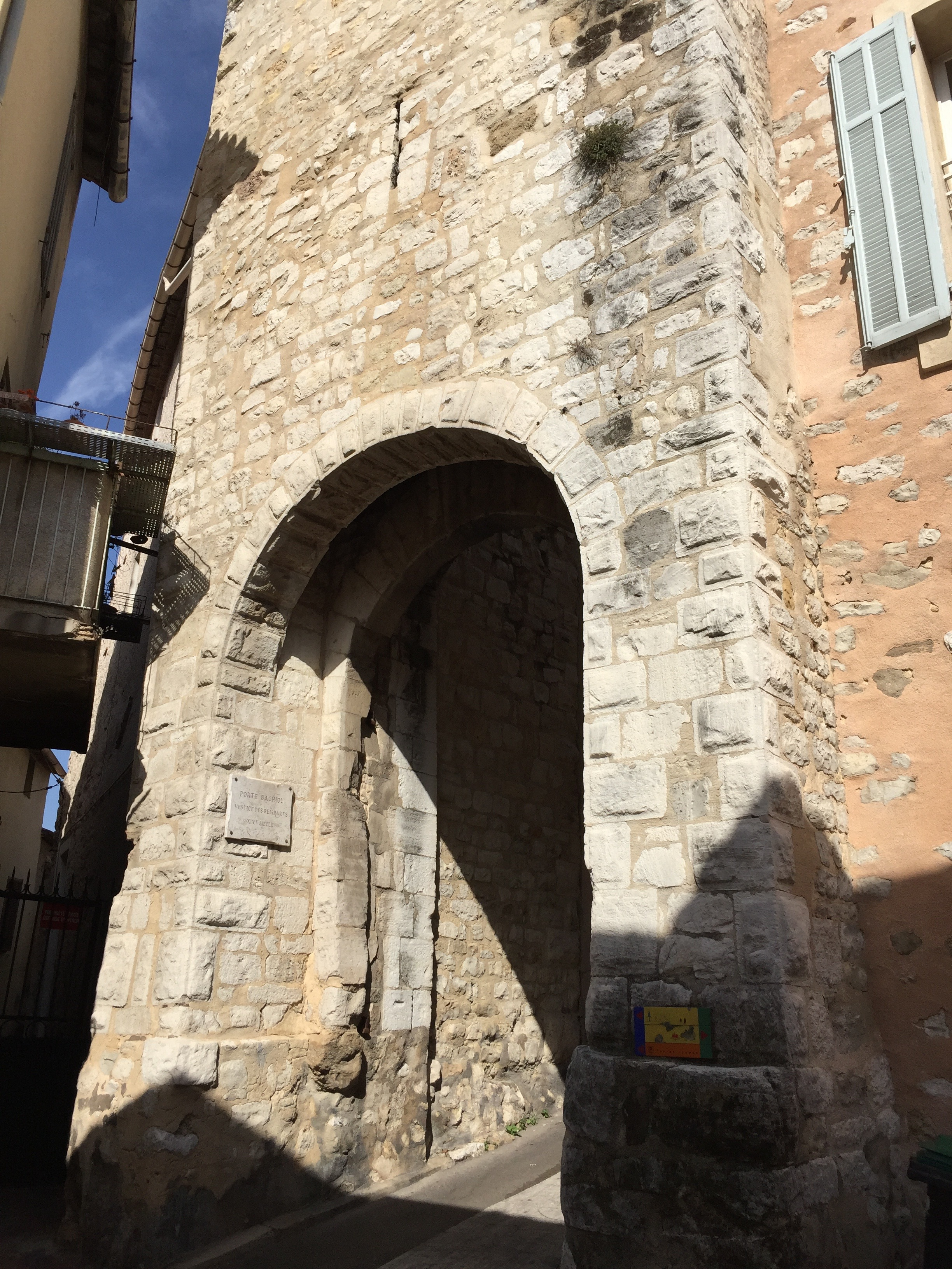 Gachiou's door in Aubagne